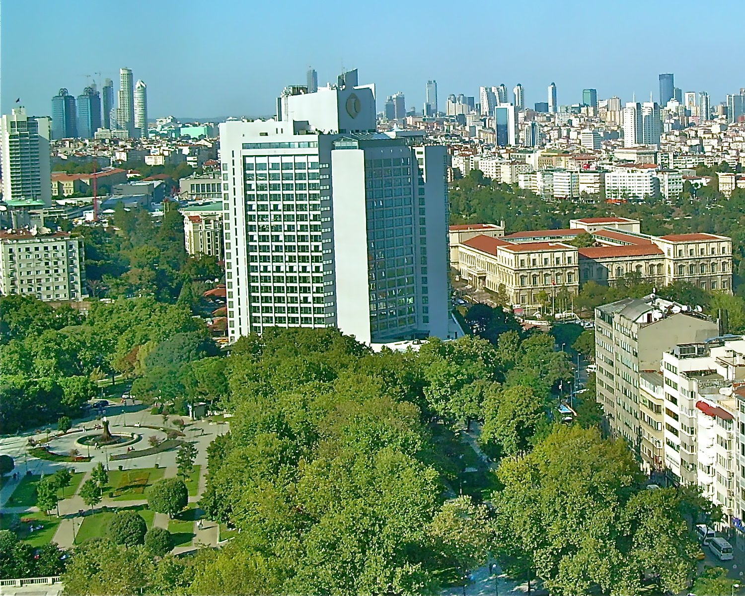 Gezi Park as seen from the Marmara-hotel on Taksim Meydanı/Taksim square. Photo taken on 3 September 2009.